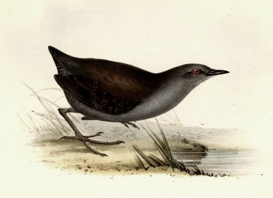 Laterallus spilonotus (Gould, 1841) (Original description: Zapornia spilonota explanation for modern name here)